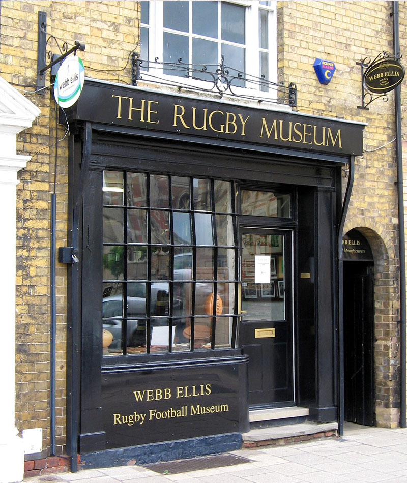 The James Gilbert Rugby Football Museum in Rugby, Warwickshire. Photo by G-Man May 2005